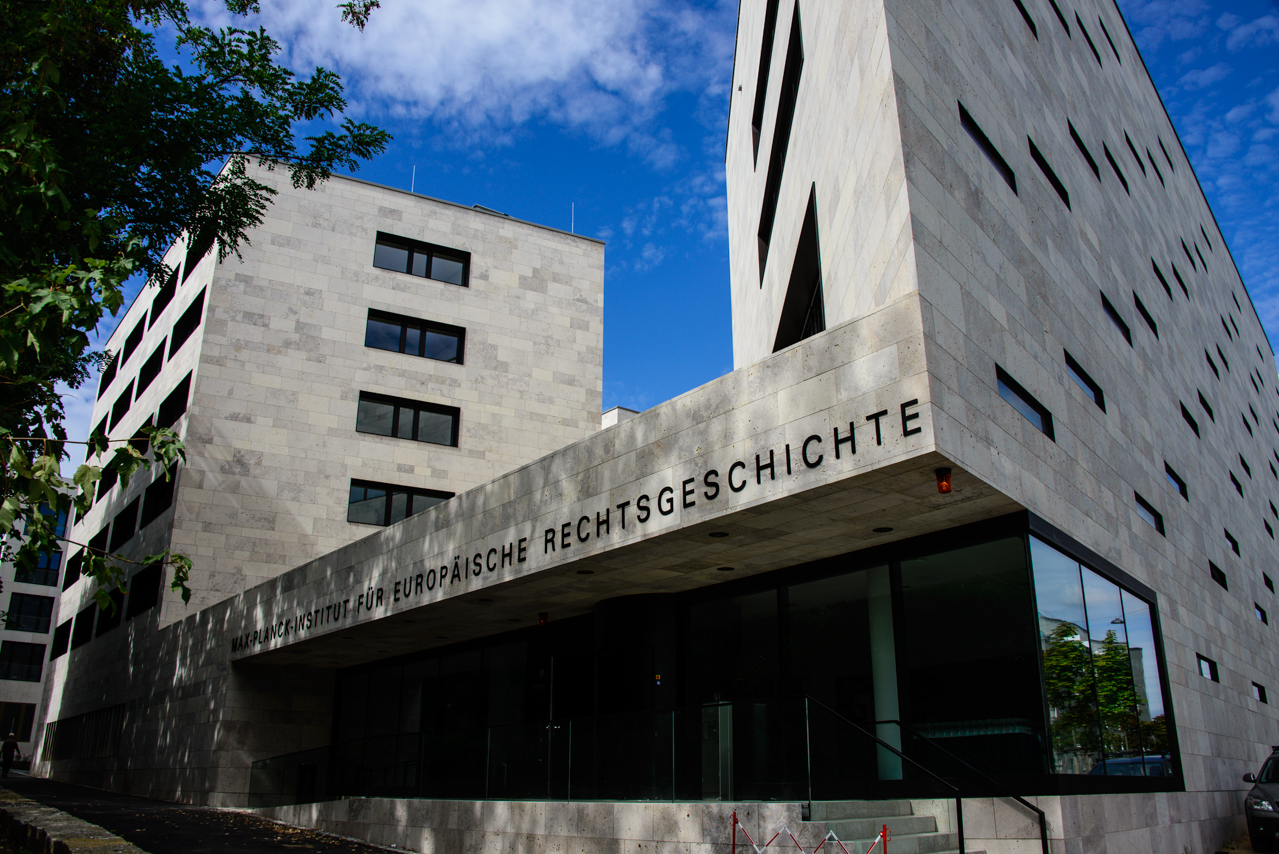 Max Planck Institute for European Legal History, new building at Campus Westend, Frankfurt, Germany